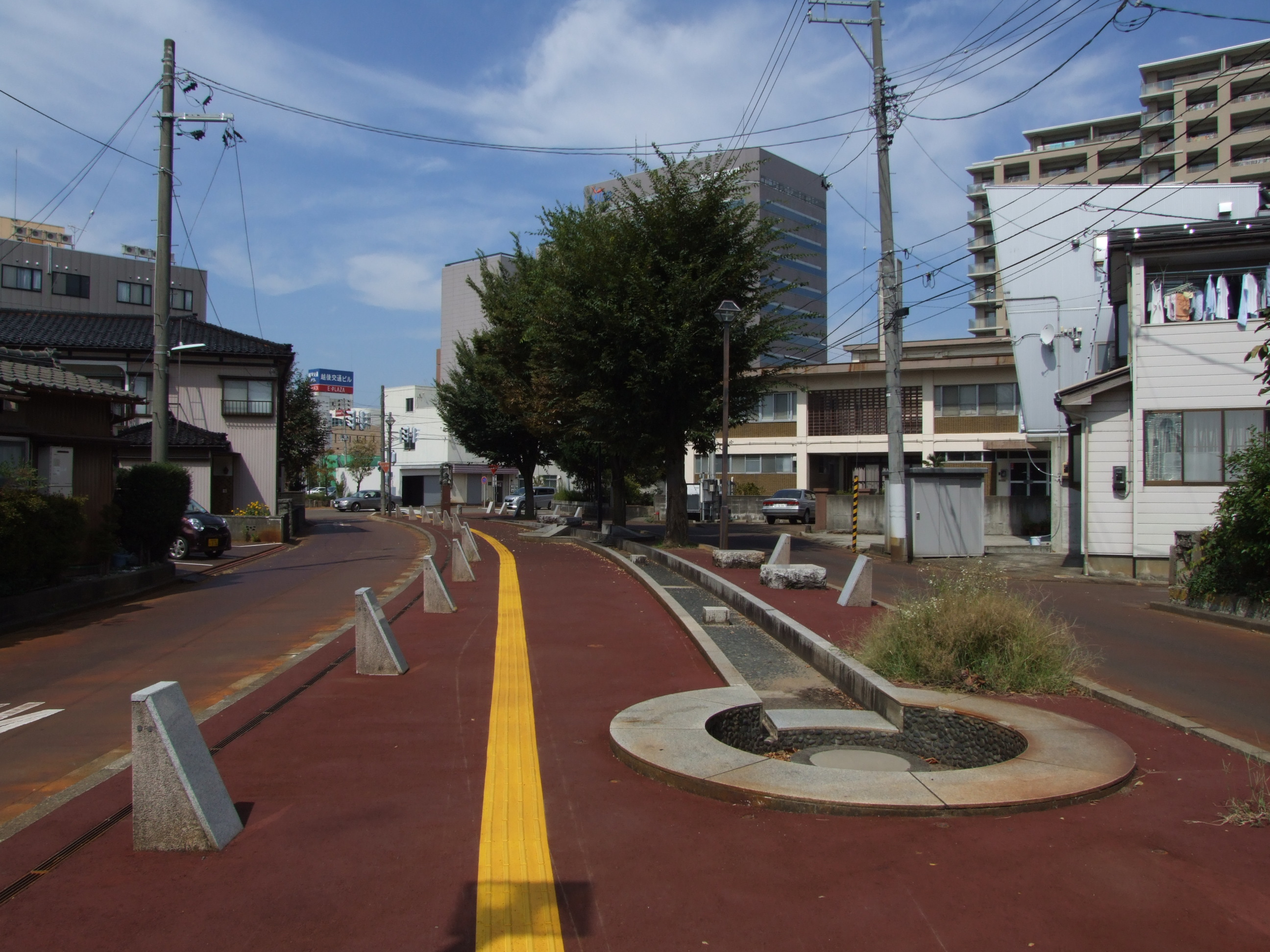 Remains of Kokomae Station Tochio Line in 2011